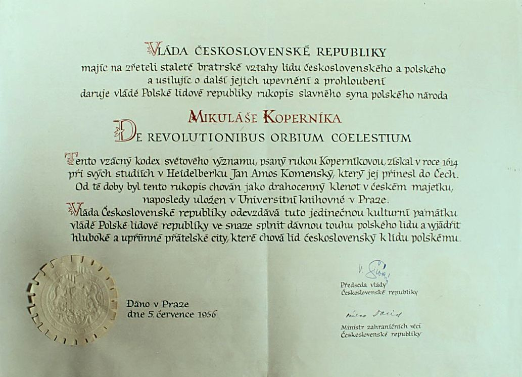 Czech government document about the 1956 handover of Nicolaus Copernicus' manuscript from Prague to Cracow. The manuscript had been purchased in Heidelberg by Comenius.